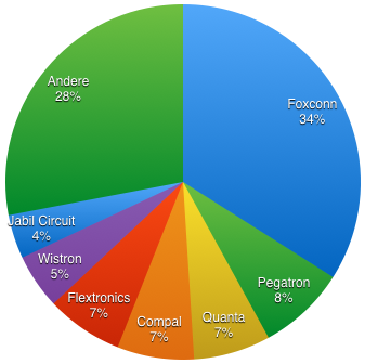 Pie diagram depicting the market shares of contract manufacturers.